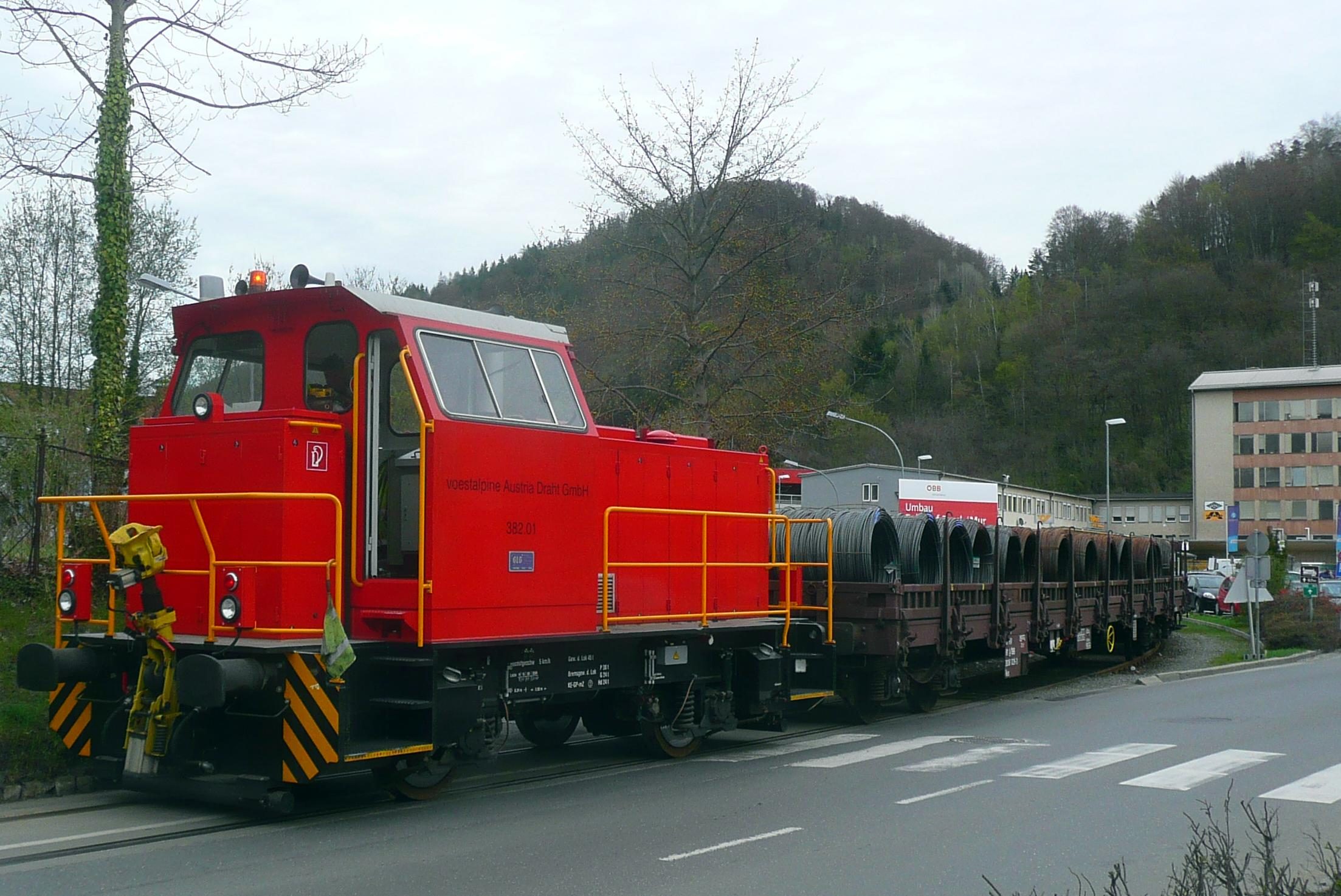 voestalpine Austria Draht GmbH locomotive 382.01 (Gmeinder D25B) with flat wagons, carrying wire rolls, on the company's industrial track in Bruck an der Mur, Austria.